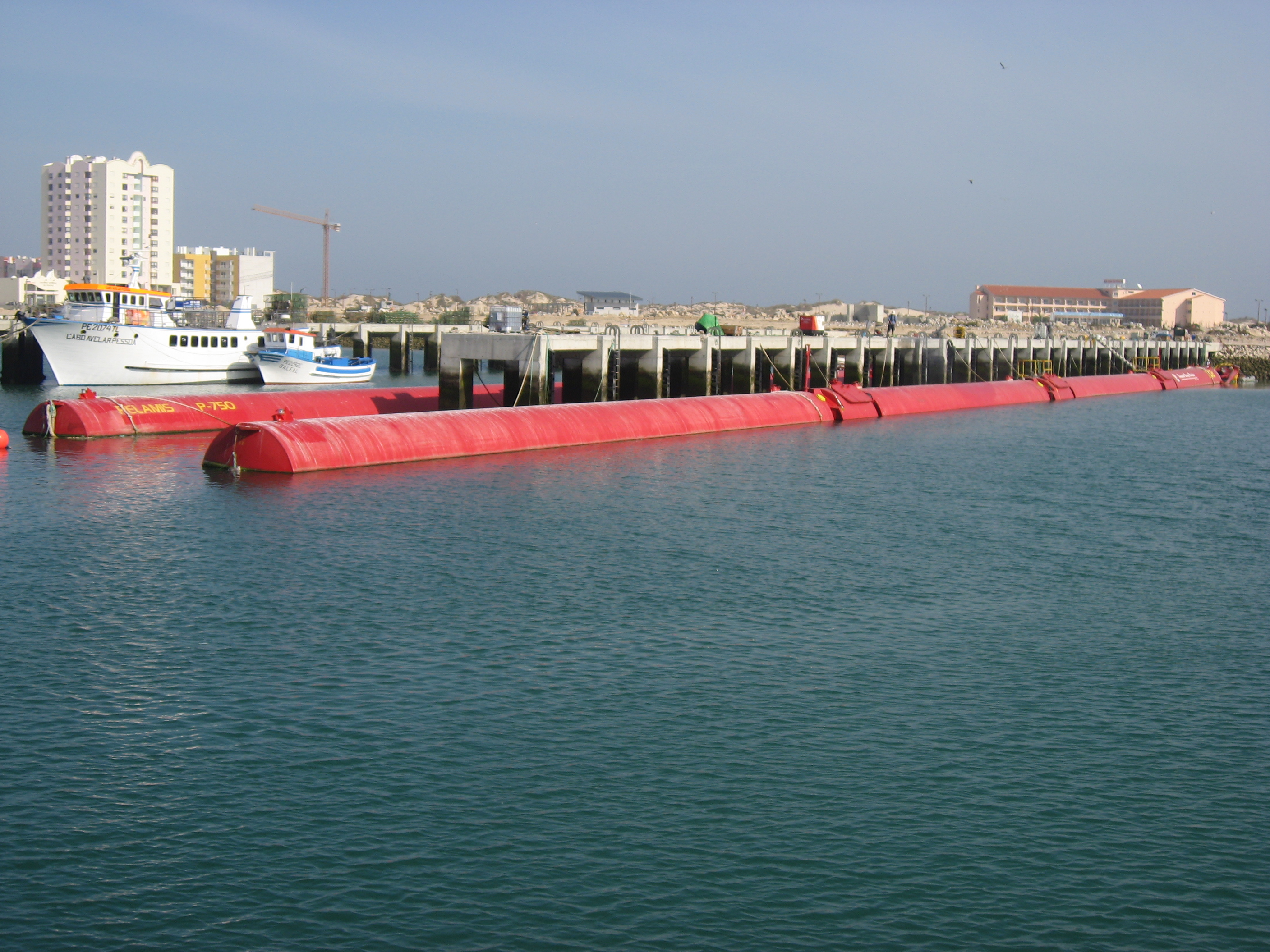 A Pelamis wave energy converter during the final tests at the port of Peniche, Portugal